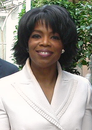 Oprah Winfrey at her 50th birthday party at Hotel Bel Air